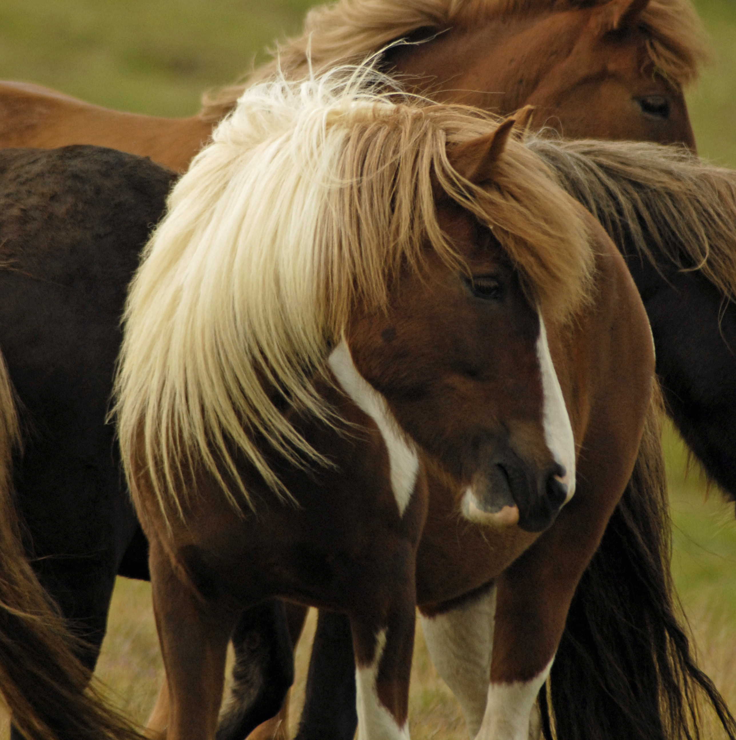 Icelandic Horse. Near Lake Hop, north Iceland.